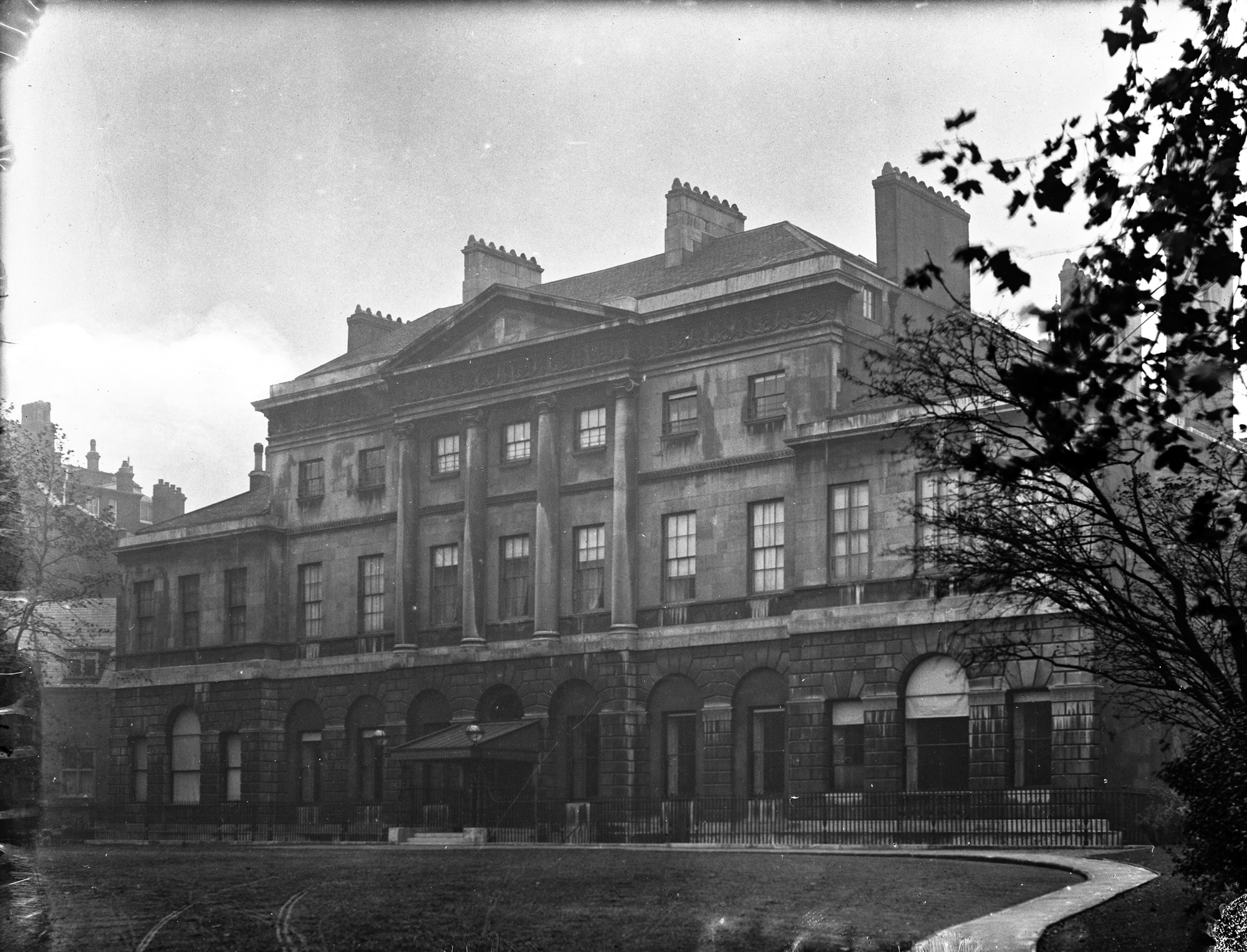 A Poole Collection image from London no less with a fine building on "Berkley" Square in London. With thanks to today's contributors we have confirmation that this is Lansdowne House off Berkeley Square. Home to several Prime Ministers, the house was demolished in sections through the early 20th century, with this capture likely before works in the mid-1920s. What remains today is used by the Lansdowne Club ... Photographer: A. H. Poole Collection: Poole Photographic Studio, Waterford Date: catalogue date ca.1901-1954, but likely pre-1925 NLI Ref: POOLEWP 0903 You can also view this image, and many thousands of others, on the NLI’s catalogue at